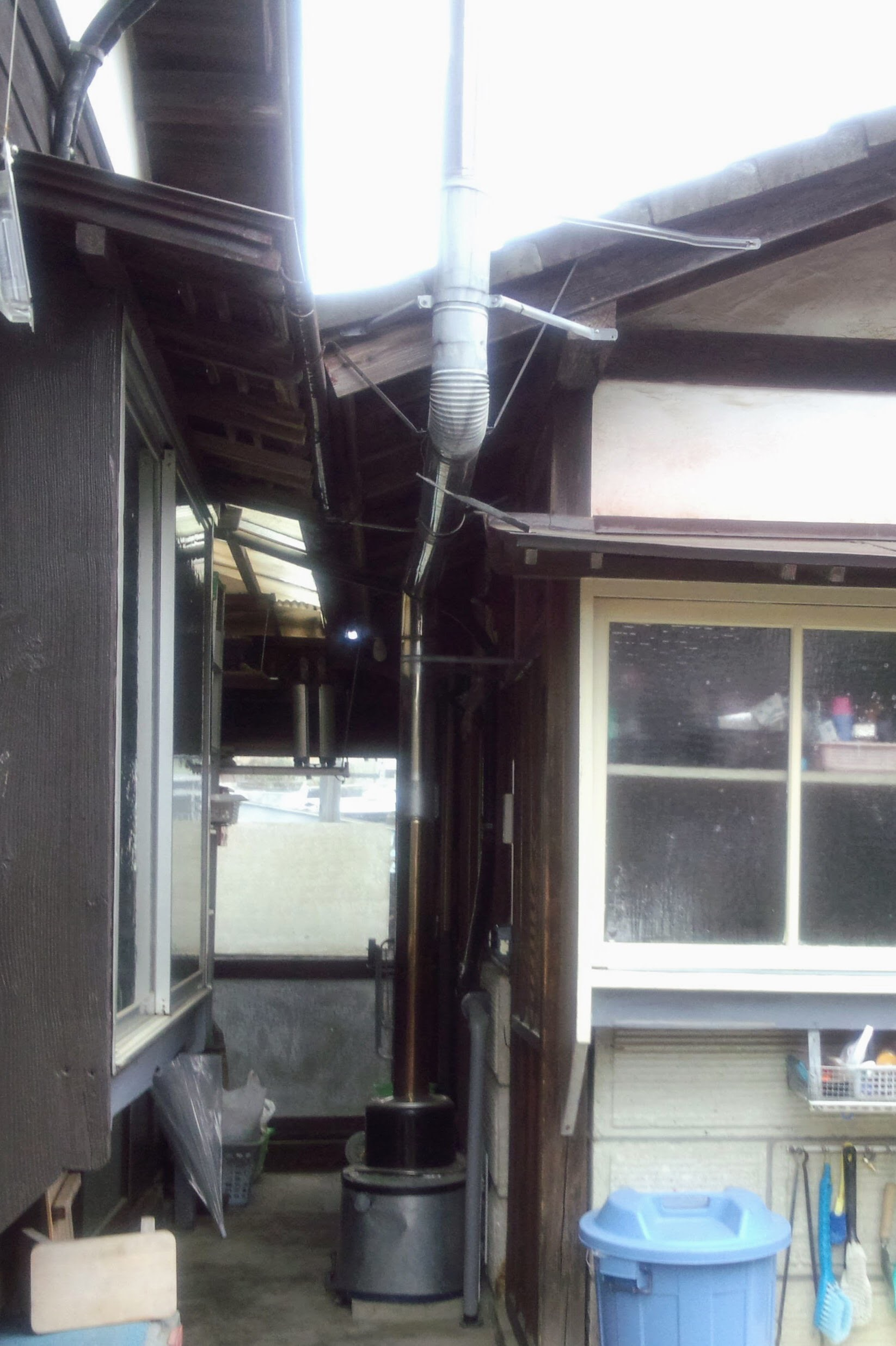 Oil burner type water heater Аҧсшәа: 石油バーナー式湯沸器